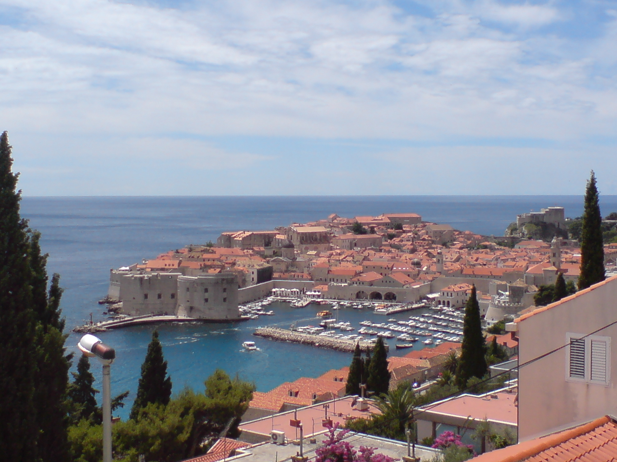 View of the Old Town of Dubrovnik from Ploče